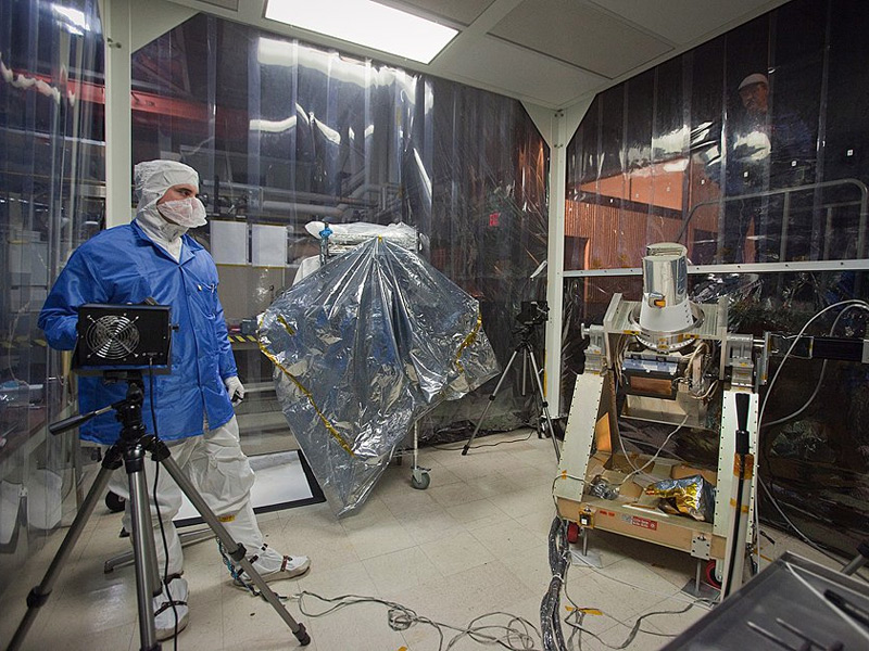 NASA Langley engineer Mark Thornblom helps calibrate SAGE III-ISS for its scan of the moon Feb. 17. The SAGE team arrived at midnight to continue testing the instrument, which will be attached to the space station to measure ozone, water vapor and aerosols in the Earth's atmosphere.